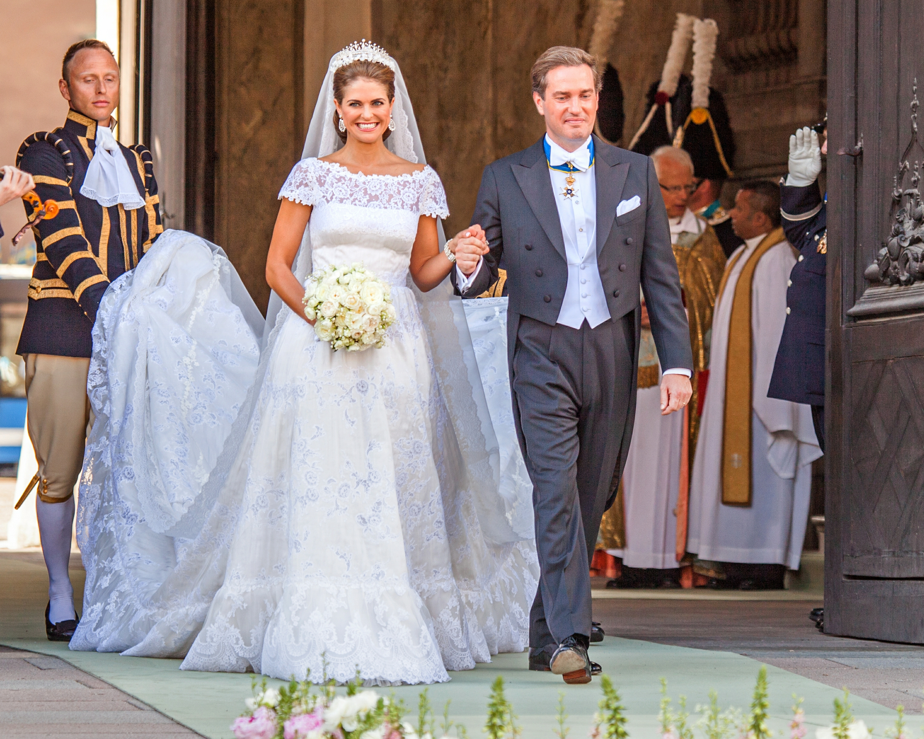 Princess Madeleine of Sweden and Christopher O´Neill wedding June 2013